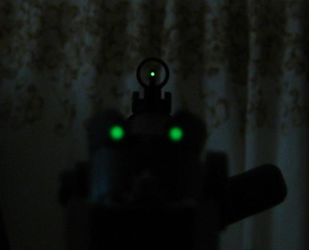 SIG black special night sight